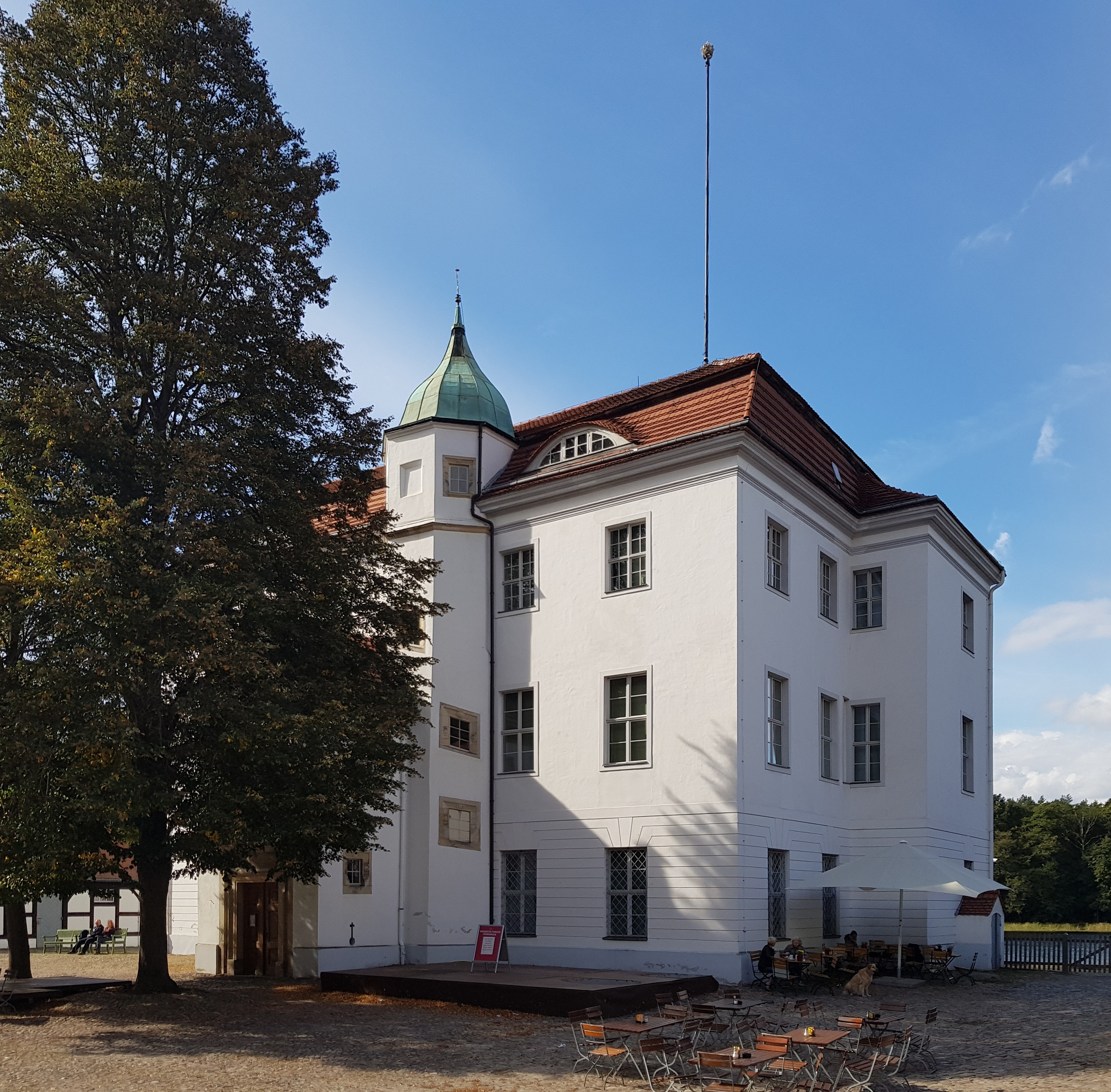 Grunewald Hunting Lodge